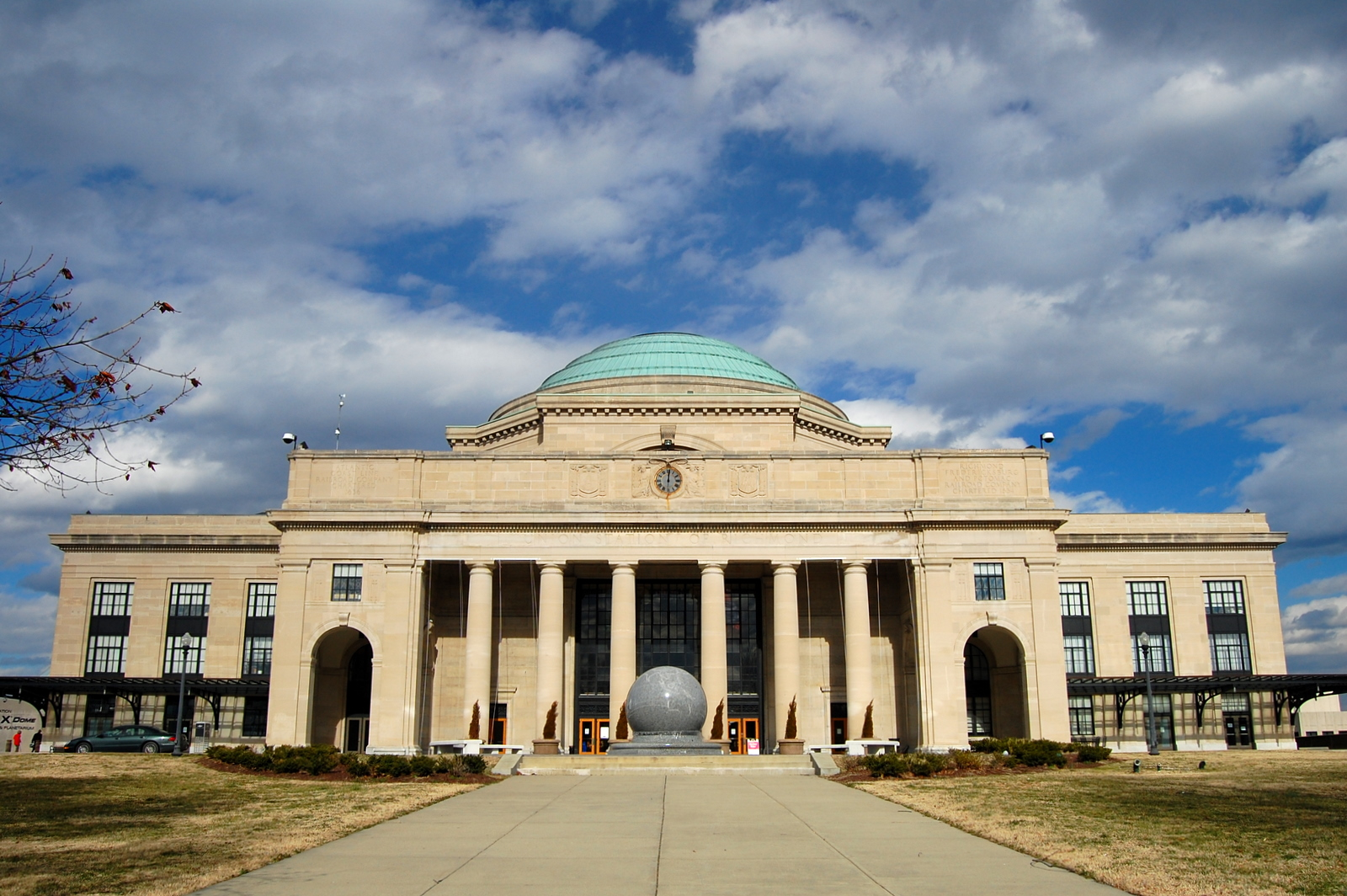 "The train station was built in 1917 by John Russell Pope, who also designed the Jefferson Memorial. The Richmond, Fredericksburg, and Potomac Railroad commissoned the building and ran passenger trains out of here until the 1970's, when it was vacated. It sat empty for several years until the Museum moved their collections into it." - From caption at Flickr